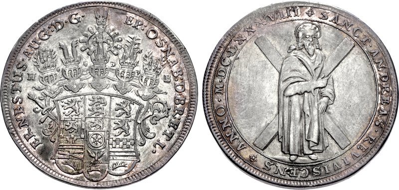 GERMANY, Braunschweig-Lüneburg. Principality of Calenberg-Hannover. Ernst August. Duke and Bishop of Osnabrück, 1679-1698. AR Taler (40mm, 29.04 g, 12h). Clausthal mint. Dated 1688. ERNESTUS • AUG : D • G • EP : OSNAB : D • BR : HTL •, coat of arms surmounted by five helmets; horse within border above / SANCT • ANDREAS • REVIVISCENS ANNO • M • DC • LXXX VIII, St. Andreas standing slightly right, bearing cross. Welter 1946; Davenport 6623. Good VF, toned.